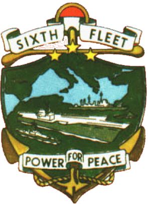 Insignia of the United States Sixth Fleet, 1970.